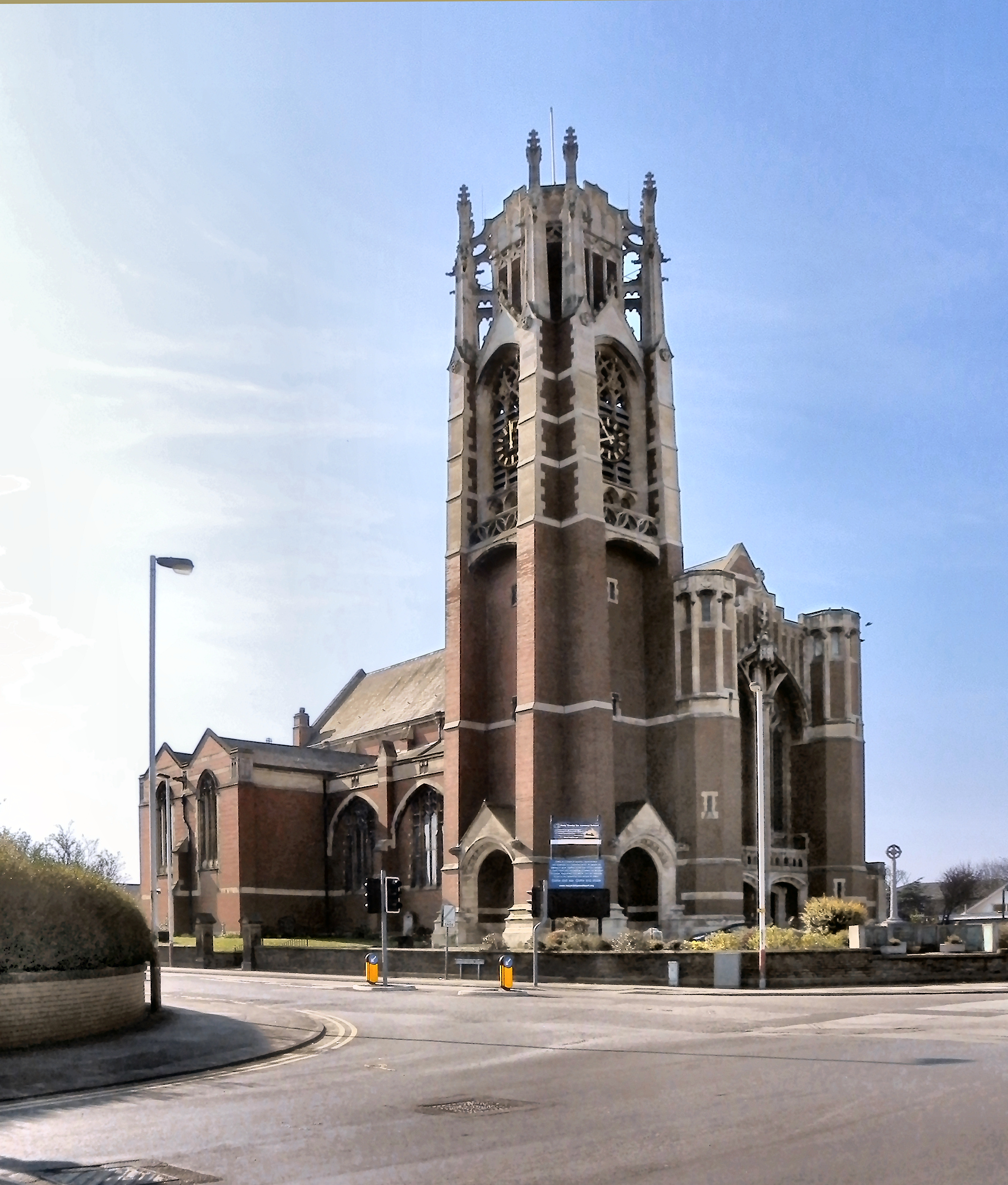 Holy Trinity Parish Church, Houghton Street, Southport, UK.